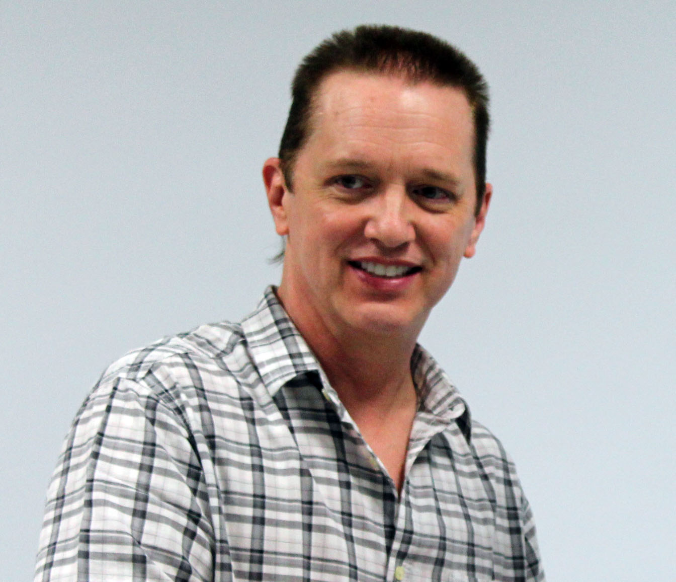 Jeffrey Winters, professor of political science at Northwestern University, during a talk at Atma Jaya University 11 April 2019